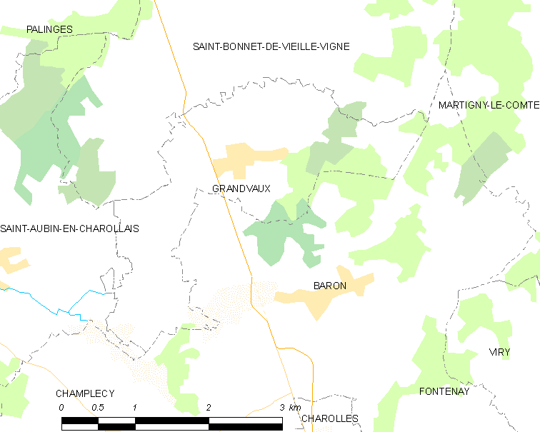 Map of French municipality